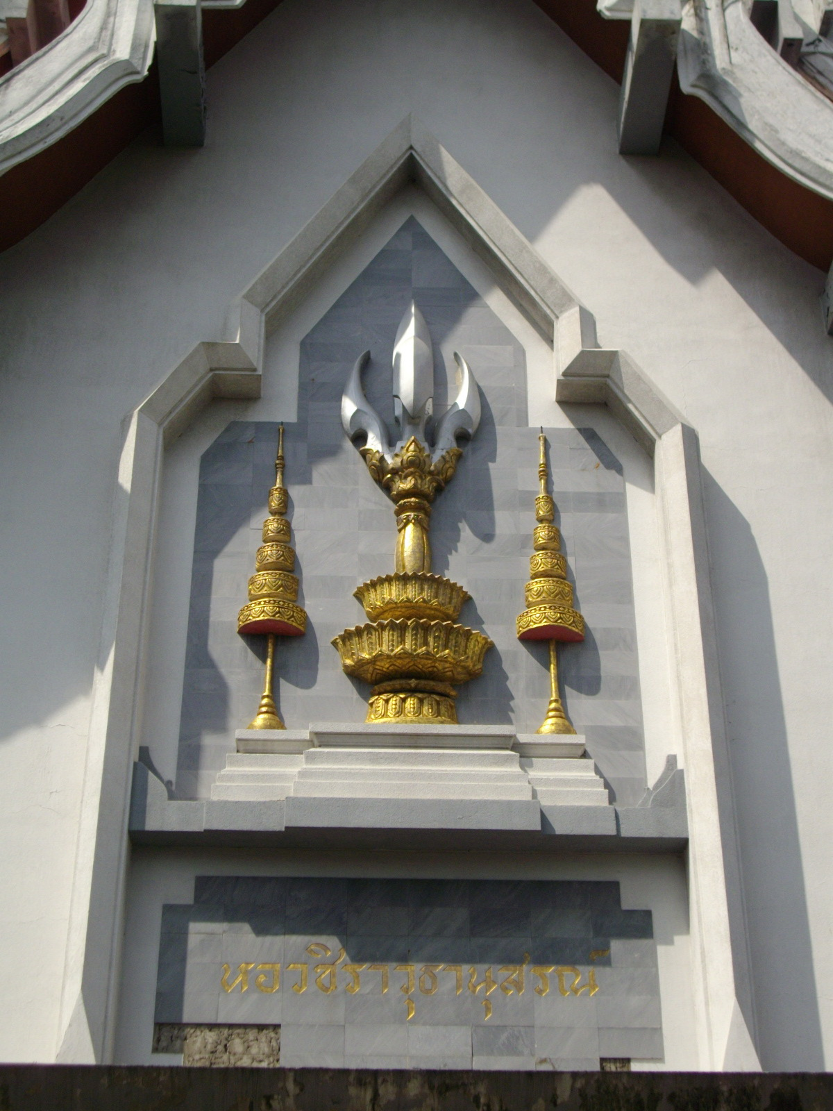 A relief of King Rama VI's privy seal at Vajiravudhanusorn Building, National Library, Bangkok, Thailand